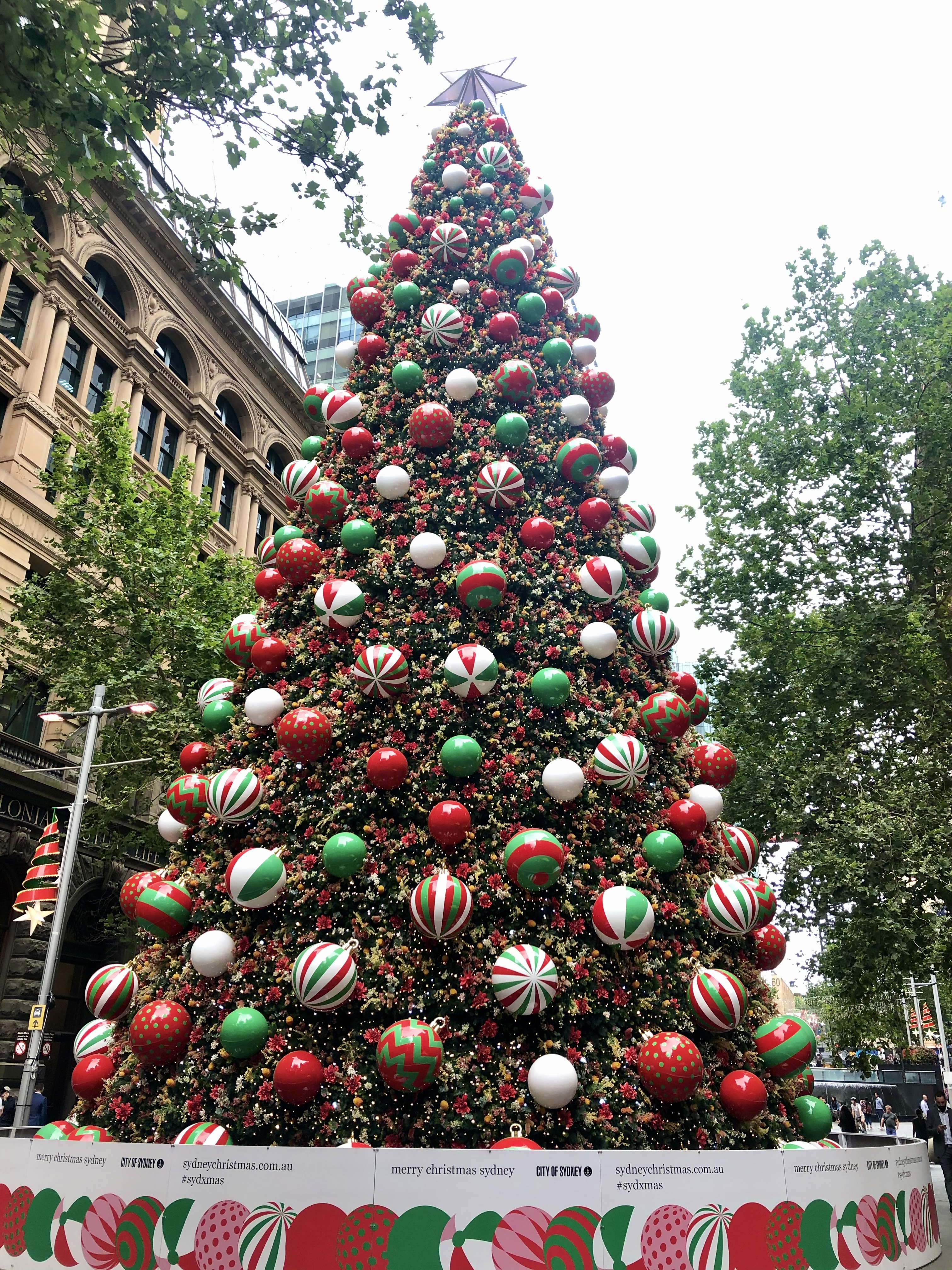 Christmas tree in Martin Place, Sydney, Australia, 2019